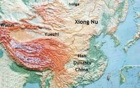 Yuezhi_in_China